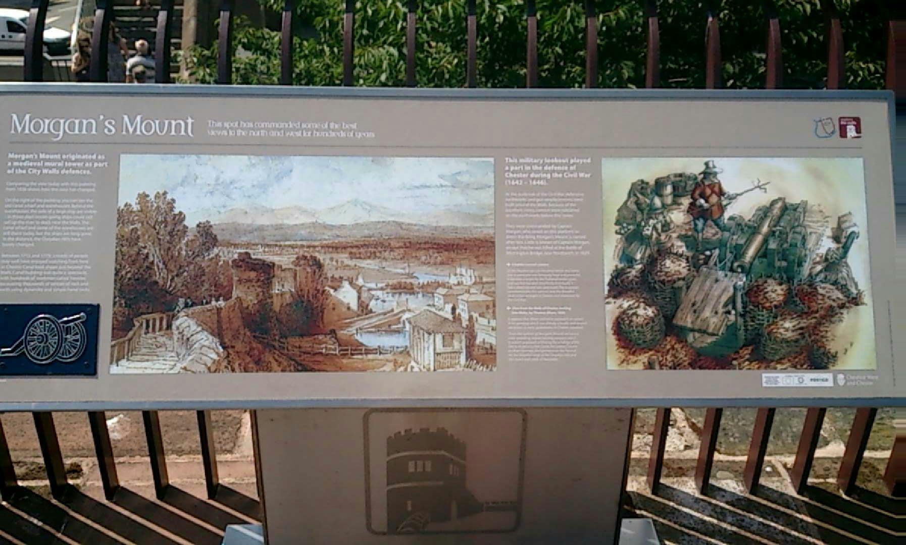 Info board